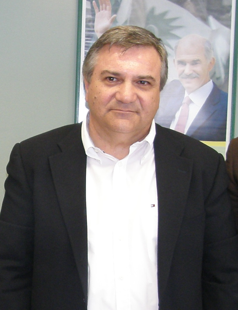 Charis Kastanidis